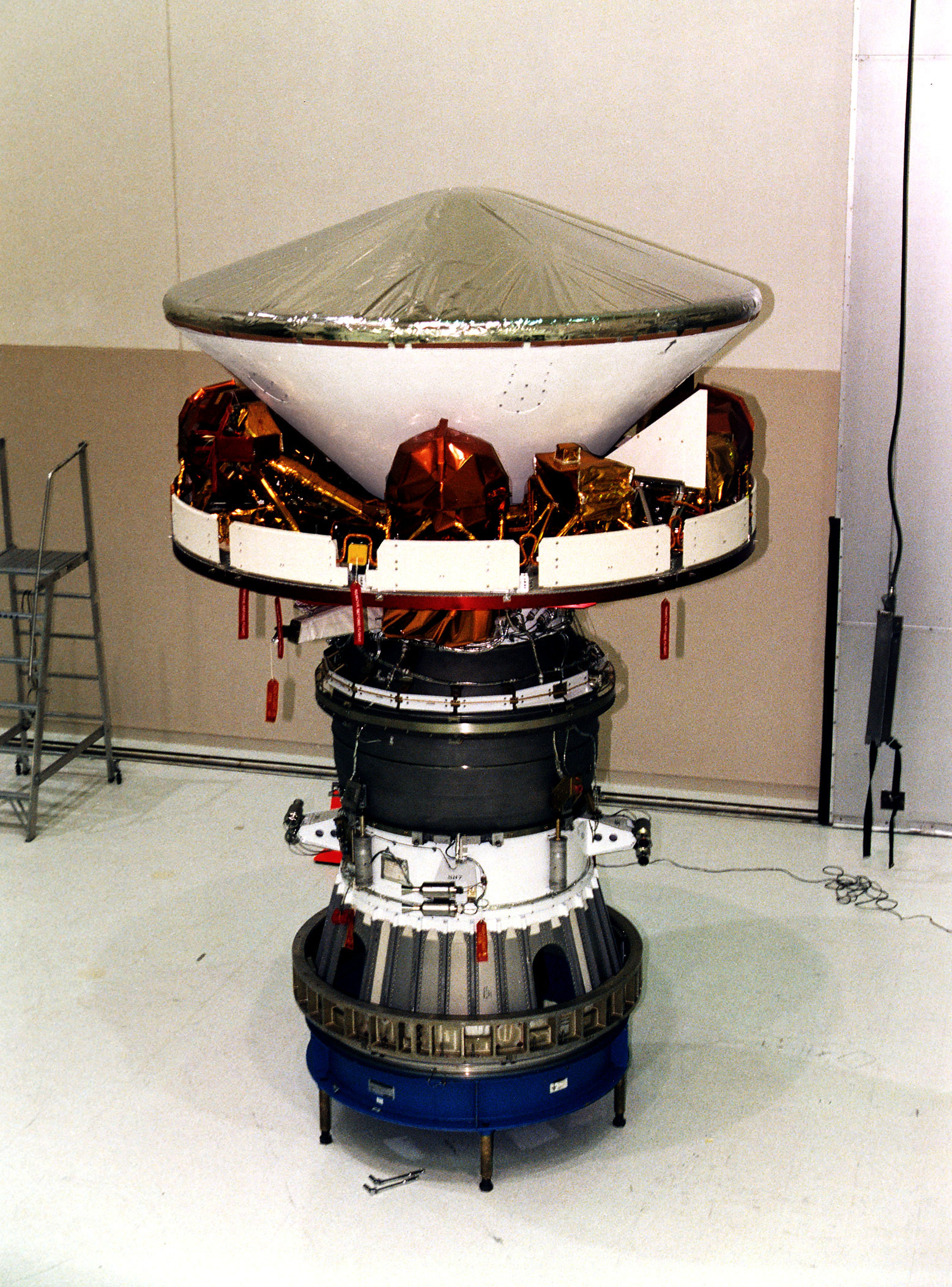 The Mars Pathfinder and mated PAM-D upper stage booster are ready for transfer from the Spacecraft Assembly and Encapsulation Facility-2 (SAEF-2) on KSC to Launch Complex 17 on Cape Canaveral Air Station. Uppermost is the Mars Pathfinder assembly, with its lander encased in a protective aeroshell attached to the circular cruise stage. Lowermost on the workstand is the PAM-D booster that will give the Pathfinder the final "kick" to send it on its way to Mars. Once at Launch Complex (LC) 17, the Pathfinder will be encased in a protective fairing before being mated to the Delta II expendable launch vehicle that will loft it into orbit. Mars Pathfinder is slated for liftoff from LC 17B on Dec. 2.